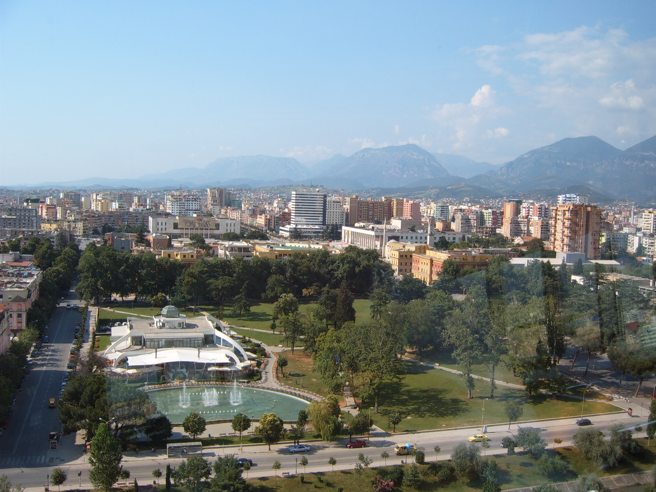 A view of downtown Tirana from Skytower